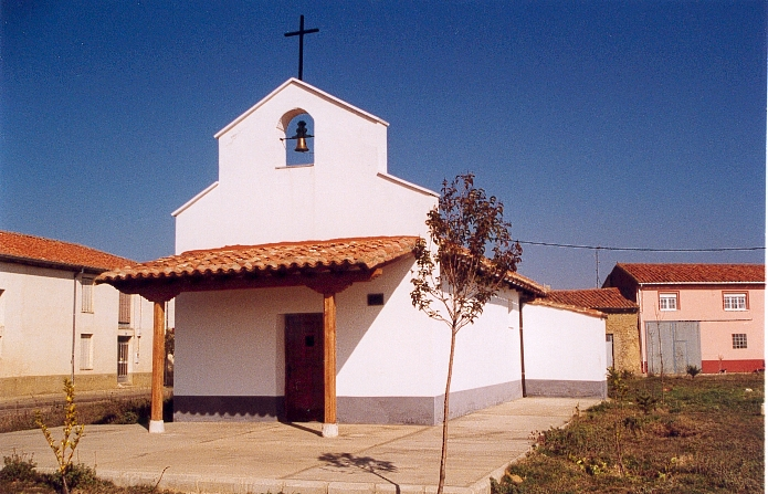 Chapel